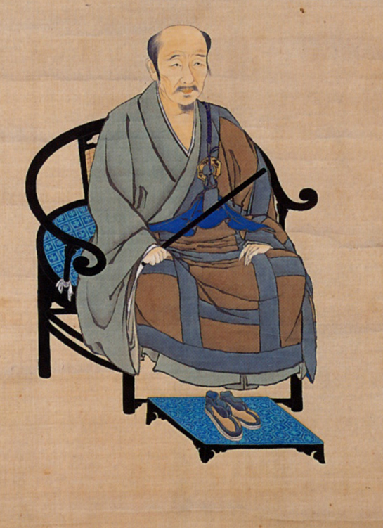 Portrait of Nampo Shomyo(1235 - 1309),Hanging Scrol,Color on silk